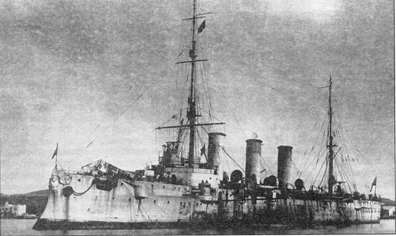 Cruiser of the White Army General Kornilov.